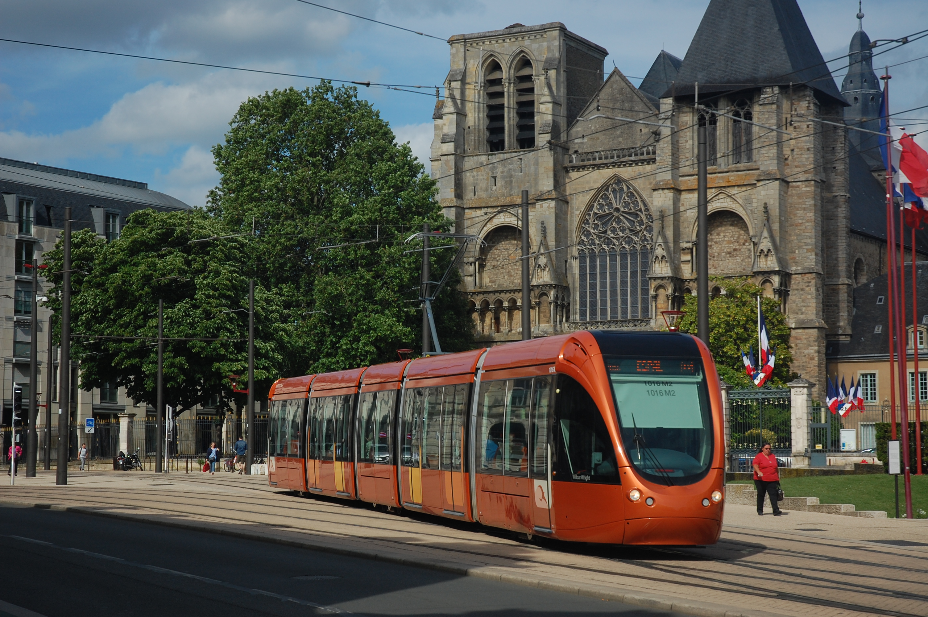 Alstom Citadis 302 n°1016